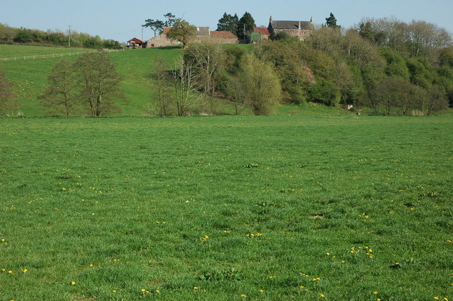 Pentwyn 'Conspicuously sited on a hillock overlooking the River Usk' is how Pevsner describes this farm, he also states that the farmhouse remains largely unchanged and dates from late 16th century.